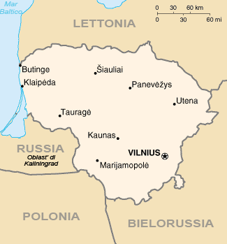 Map of Lithuania.